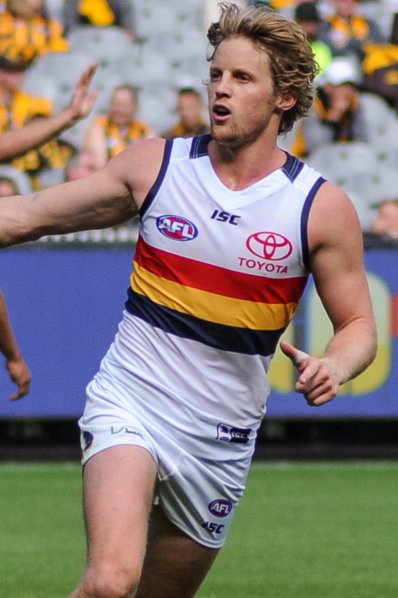 Rory Sloane during the AFL round two match between Hawthorn and Adelaide on 1 April 2017 at the Melbourne Cricket Ground in Melbourne, Victoria.